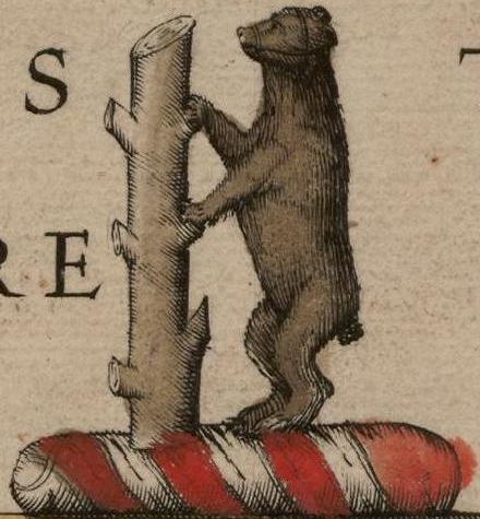 The symbol of the bear and ragged staff from John Speed's ~1610 county map of Warwickshire in England